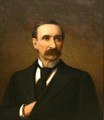 William D. Hoard (1836-1918)